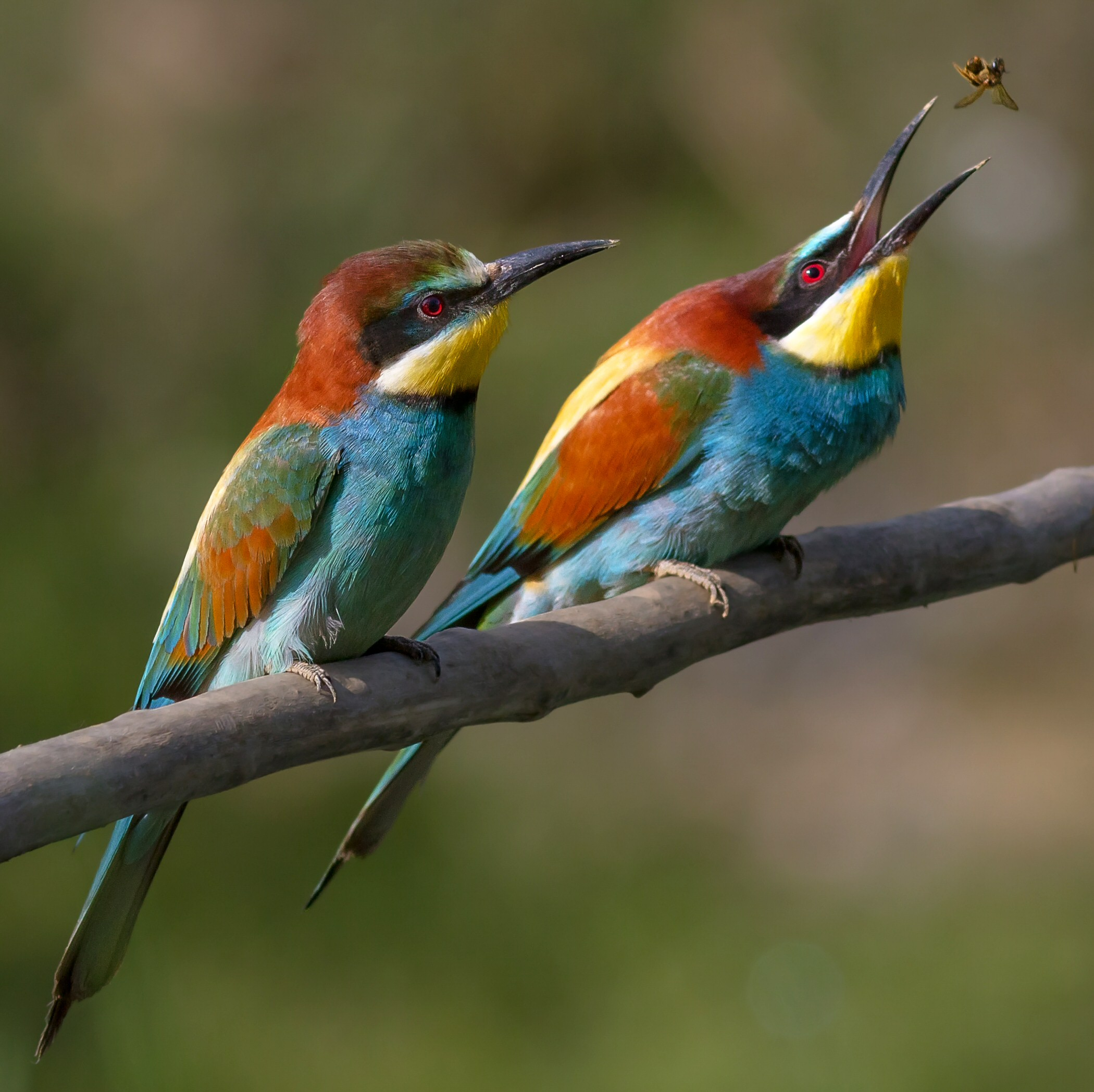 European Bee-eater Merops apiaster catching a bee. The female (in front) awaits the offering which the male will make.